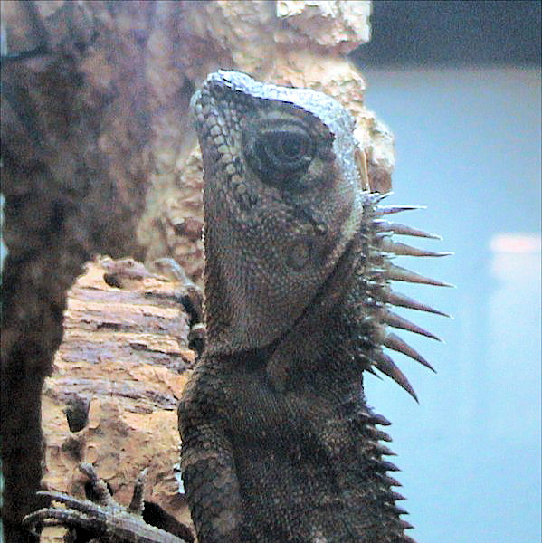 Acanthosaura sp.